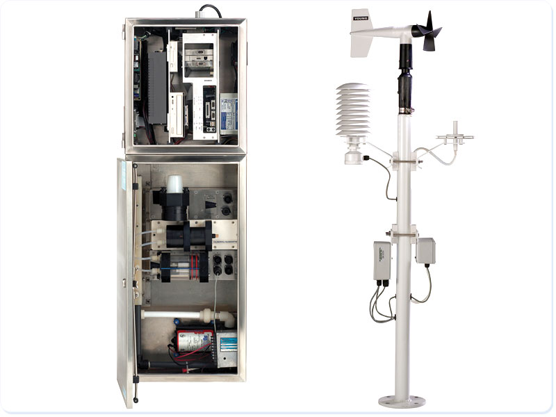 Shows the internals of the SeaKeeoer 1000.